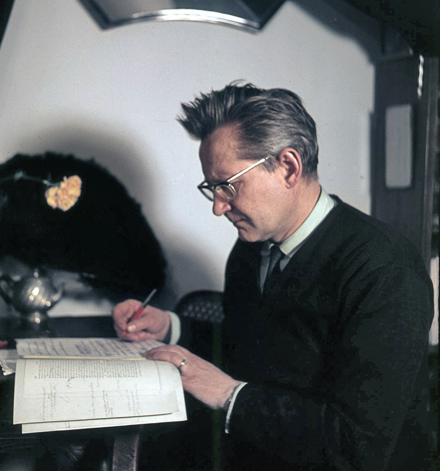 Jaroslav Kohout, Czech philosopher, translator and political prisoner